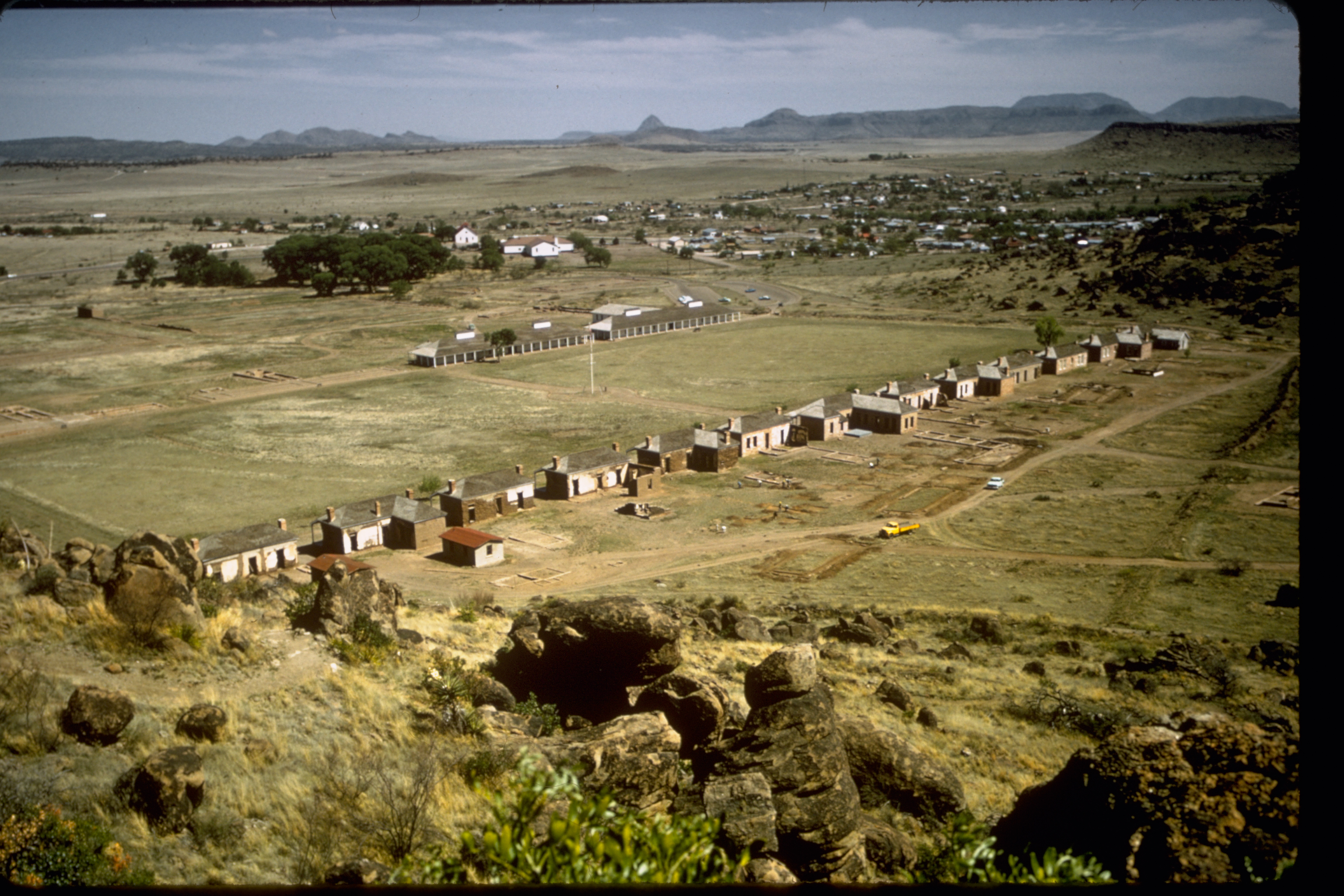 Location Fort Davis National Historic Site Description Fort Davis is one of the best surviving examples of an Indian Wars' frontier military post in the Southwest. From 1854 to 1891, Fort Davis was strategically located to protect emigrants, mail coaches, and freight wagons on the Trans-Pecos portion of the San Antonio-El Paso Road and on the Chihuahua Trail.